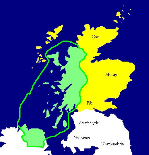 Extent of the Kingdom of Dál Riata (in green), c. AD 590. Yellow areas show occupation by the Picts.